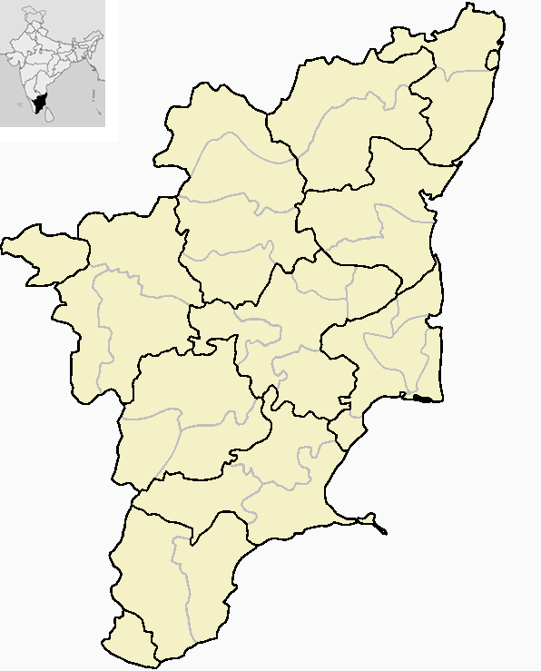 Districts of Madras State (present-day Tamil Nadu) at the time of the formation of the state in 1956. Present-day district borders (as of 2009) marked in grey.